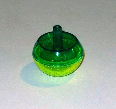 Toy tippe top.